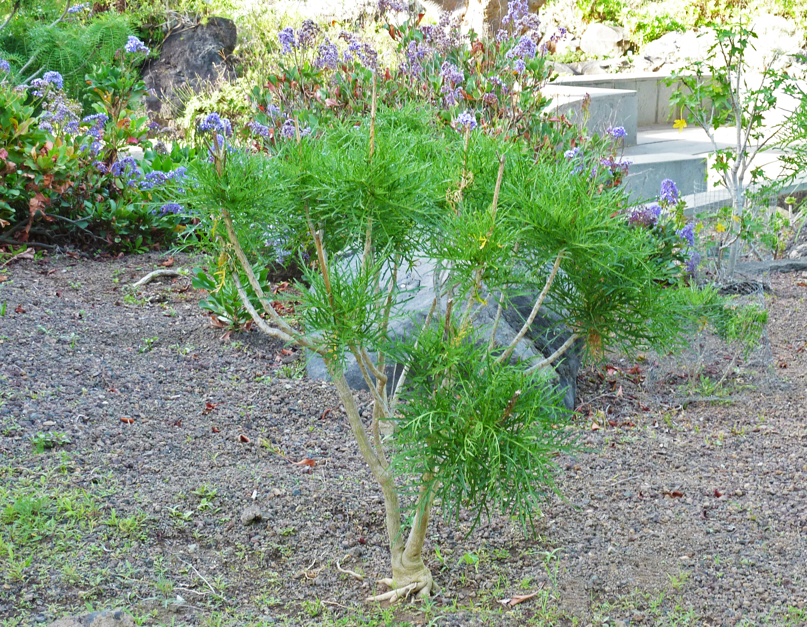 Crambe arborea var. arborea in the Jardín Botánico Canario Viera y Clavijo.